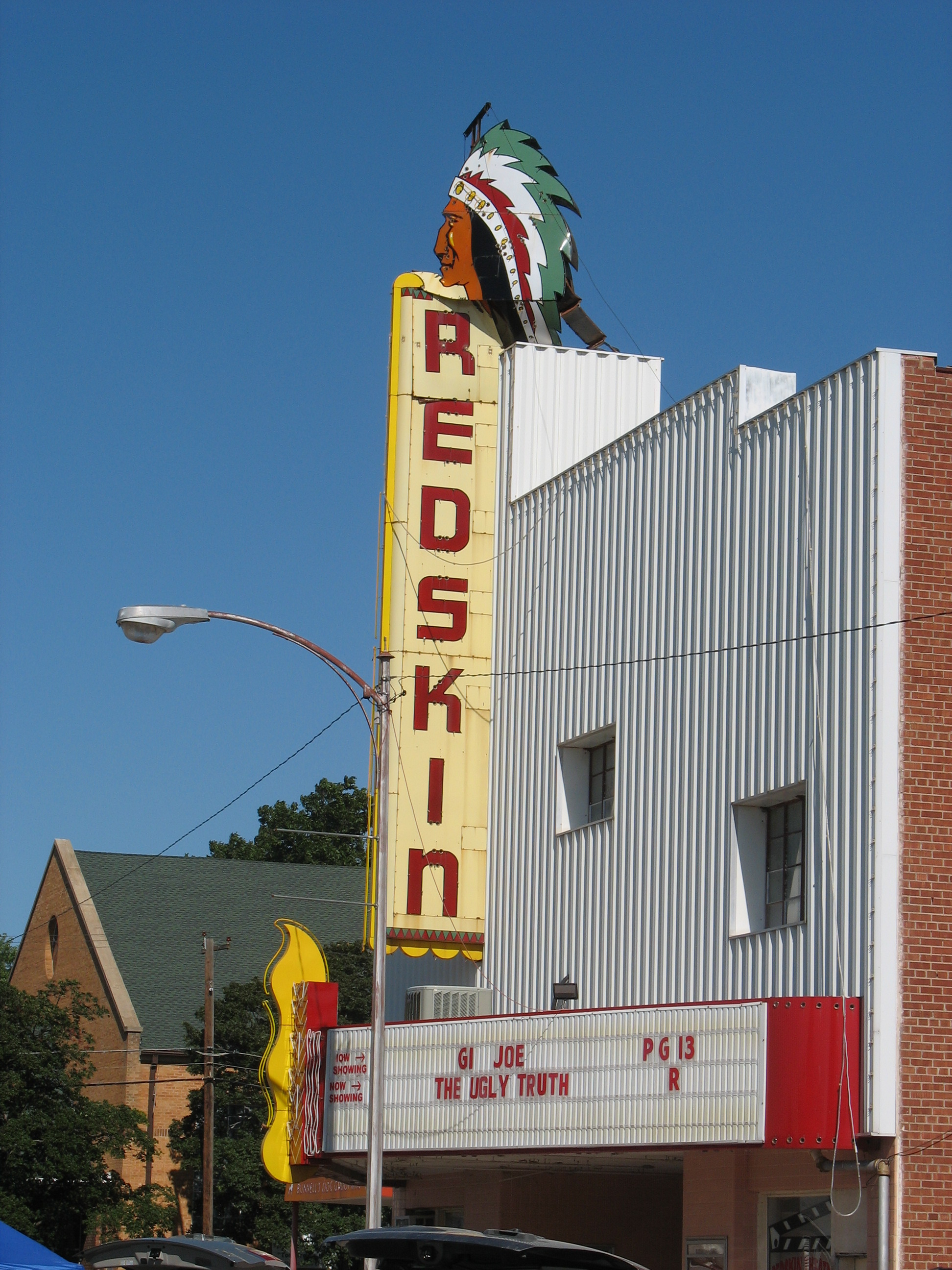 Anadarko Downtown Historic District, Roughly bounded by the Chicago, Rock Island and Pacific railroad line and E. 2nd and W. 3rd Sts. Anadarko